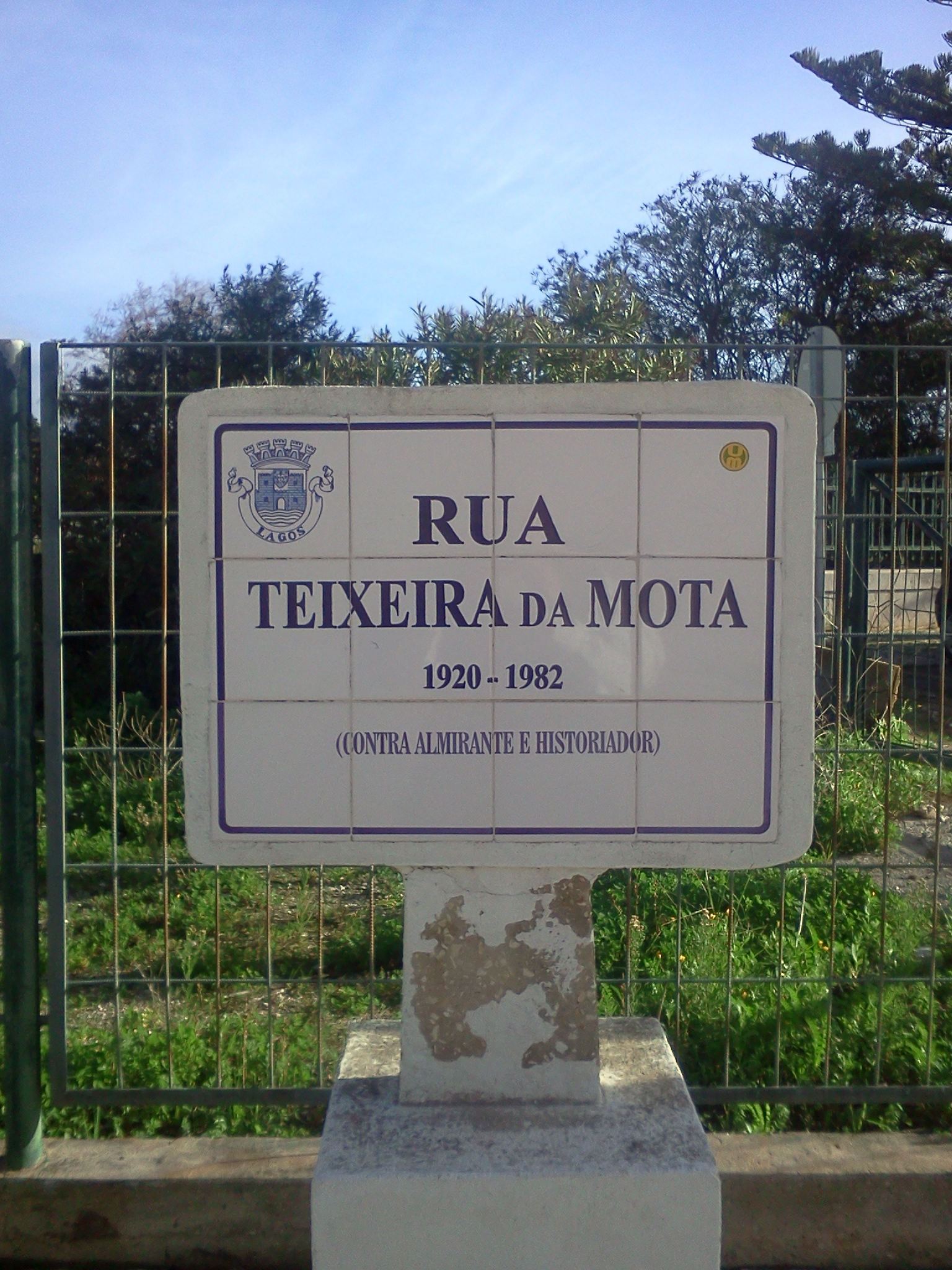 Street sign of Rua Teixeira da Mota, in the city of Lagos, in southern Portugal.